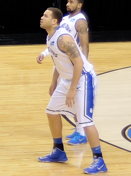 The #12 seed Oregon Ducks tip off vs the #4 seed St. Louis Billikens @ HP Pavilion in the round of 32, March Madness 2013. The Ducks busted out to an early lead and never looked back, advancing to the Sweet Sixteen. Recap of the game